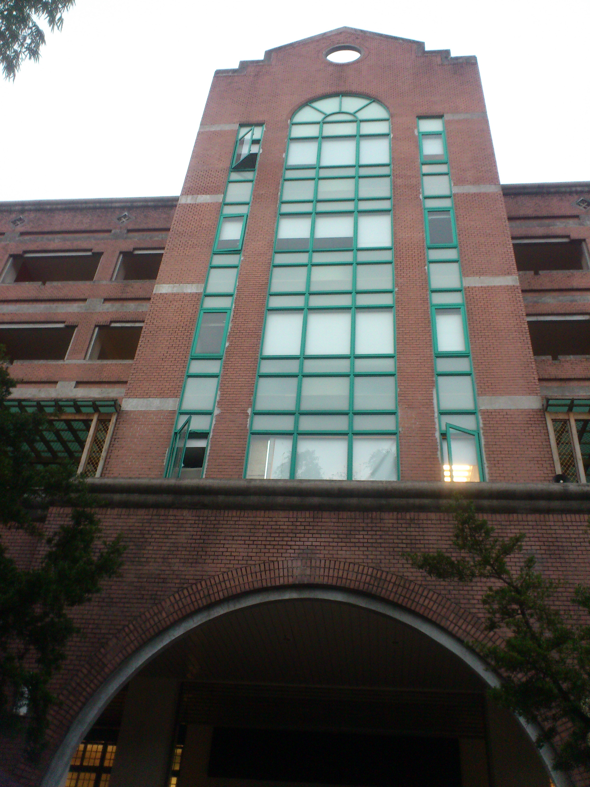 國立臺灣大學普通教學館